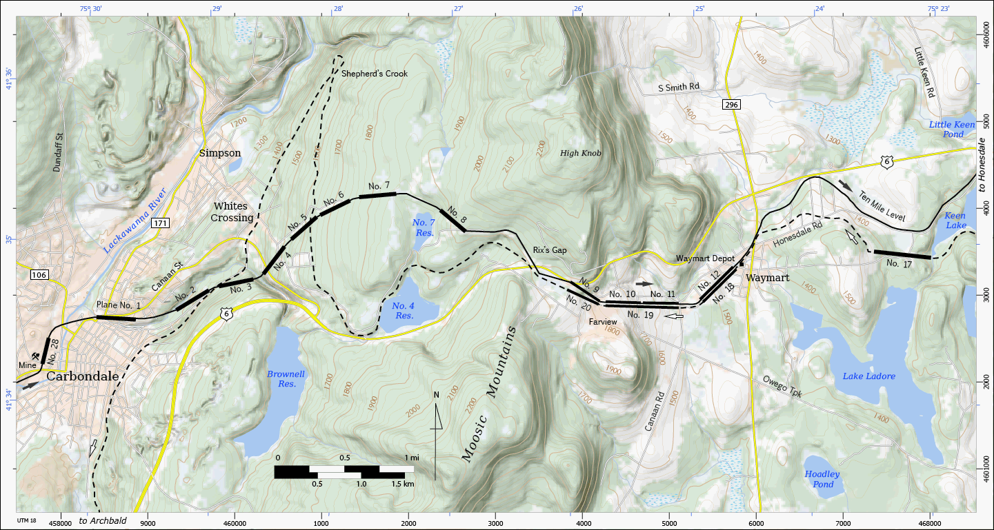 Map of the Delaware and Hudson Gravity Railroad, 1868 modifications between Carbondale and Honesdale.